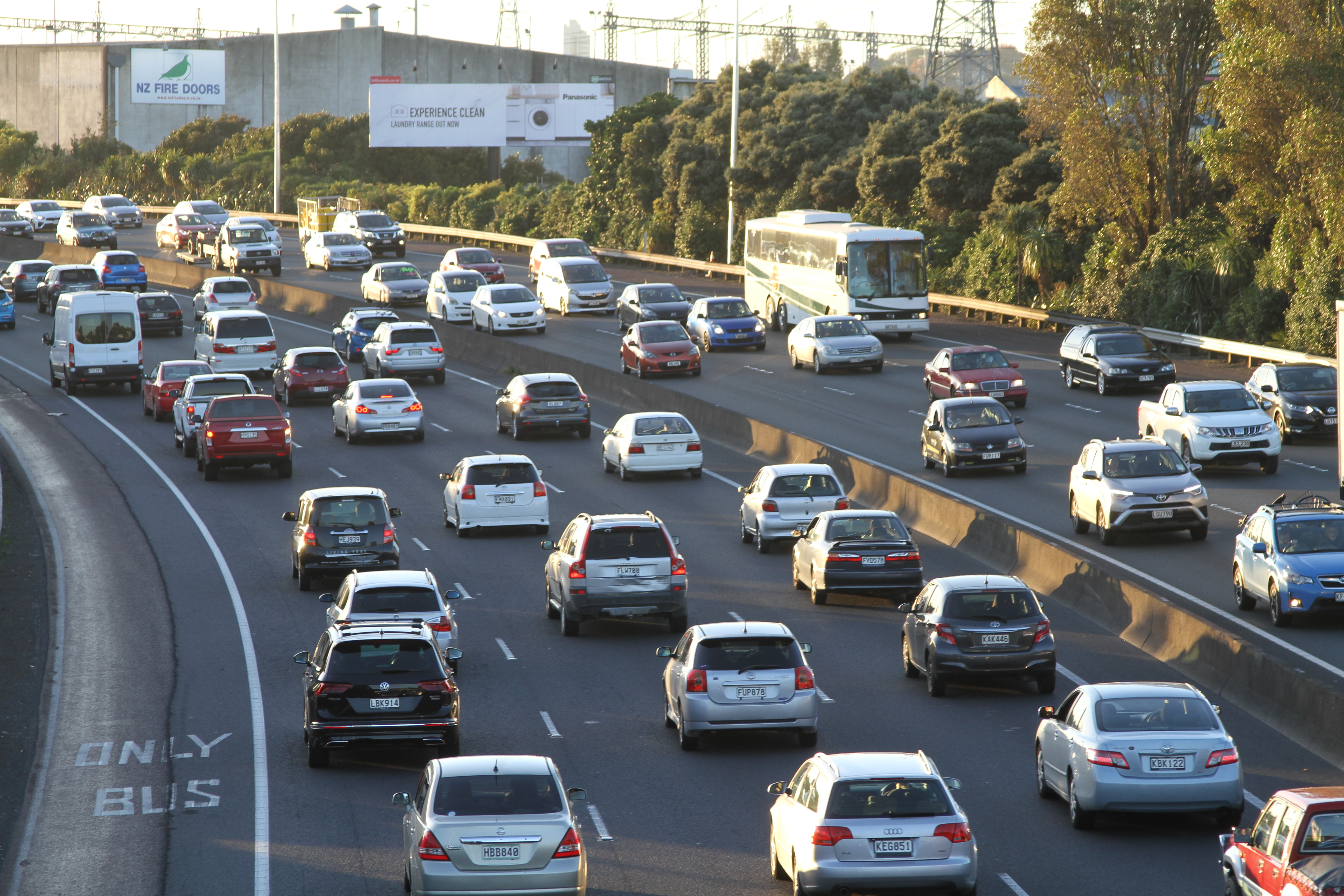 Cars and traffic on the Southern Motorway; a highway in Auckland, New Zealand. This photo has been released into the public domain. You are free to share, use and modify this image without attribution.